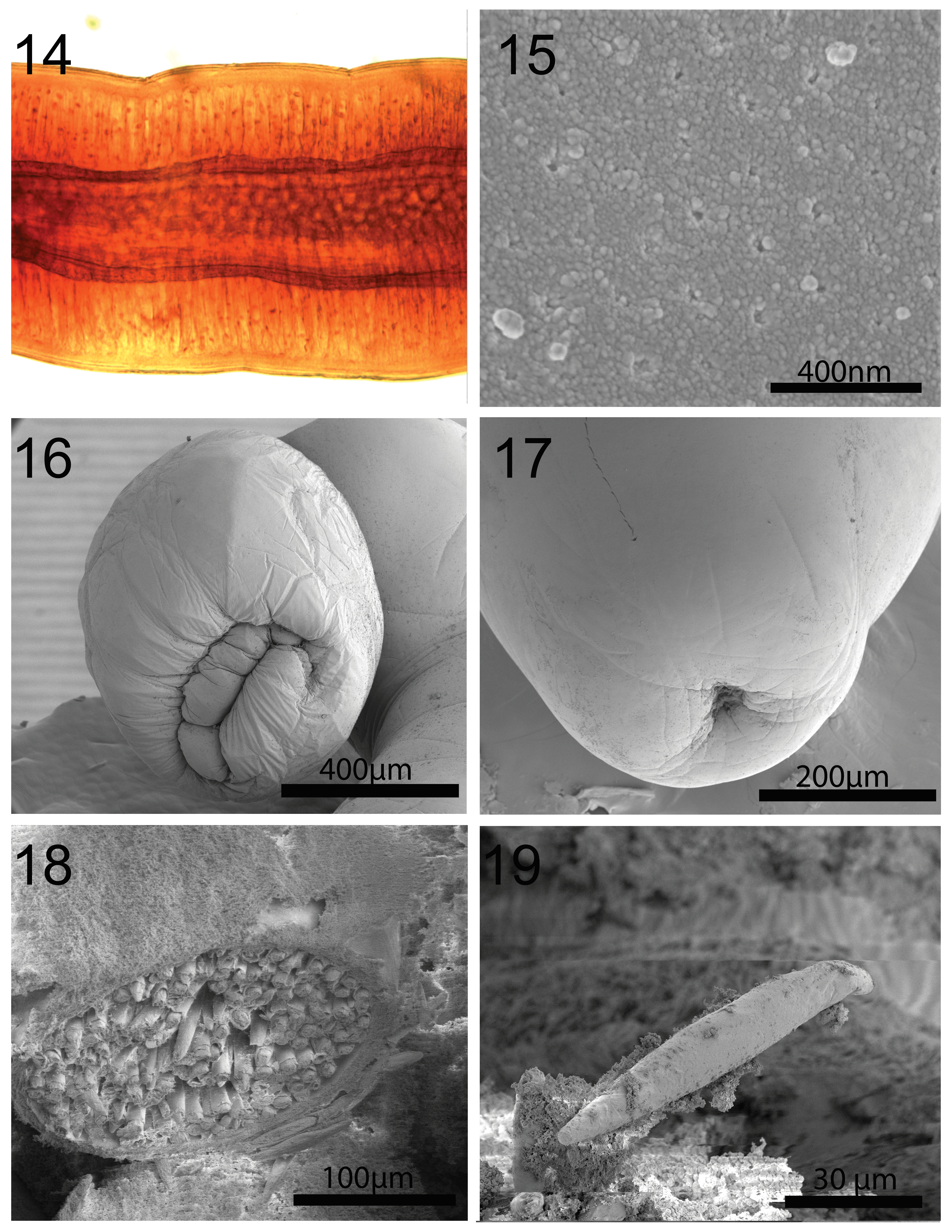 Figures 14-19 of paper SEM and microscopic images of specimens of Cavisoma magnum collected from Mugil cephalus in the Arabian Gulf. 14. A microscopic image of a section of a female specimen showing the outer cuticle, thick tegument and the darker internal circular muscle layer. 1 5. Epidermal micropores in the posterior trunk section of a worm. 16. A basal perspective of a bursa showing its thick unornamented muscular organization with invagination of its inner orifice. 17. A ventro-lateral view of the terminal female gonopore. 18. A high magnification of packed eggs in the ligament sac of a gravid female. 19. A fully developed ripe egg.